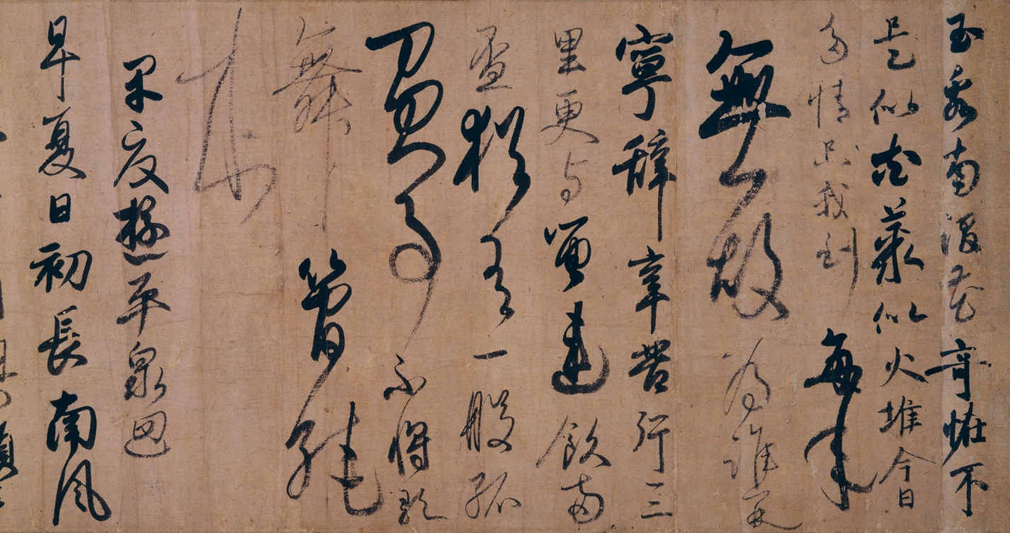 Opening of the Gyokusen-jō (玉泉帖), calligraphy by Ono no Michikaze (CE 894-996). Imperial Household Agency, Japan, Ink on Paper. 30.6cm height, whole length 188.7cm